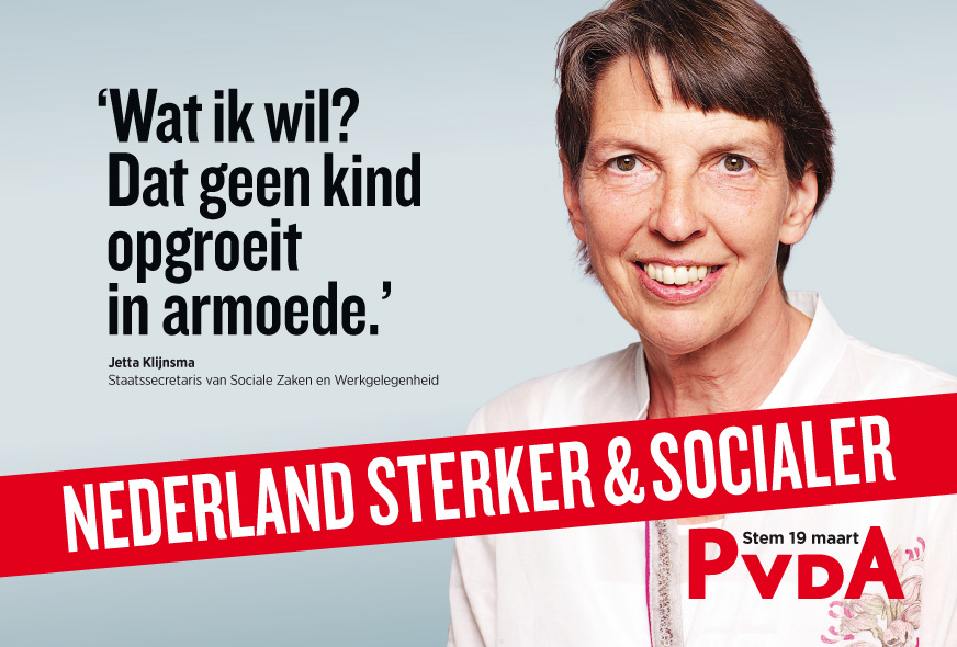 Poster voor de gemeenteraadsverkiezingen op 19 maart 2014. Deze poster hing op treinstations.